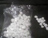 It is a food.नेपाल भाषा: तारासारी धयागु छगू नसा खः।